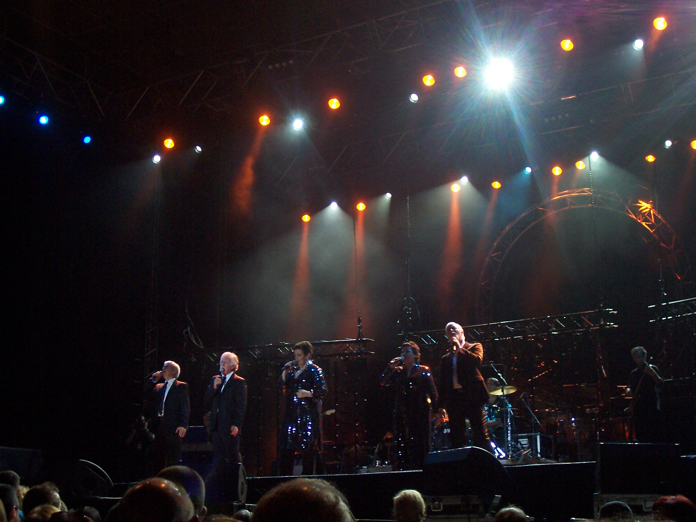 El Consorcio, a Spanish musical group during a concert in the Noroeste Pop Rock in August 14th 2009 in Praia de Riazor (La Coruña, Spain). From left to right, Iñaki Uranga, Carlos Zubiaga, Amaya and Estíbaliz Uranga and Sergio Blanco.